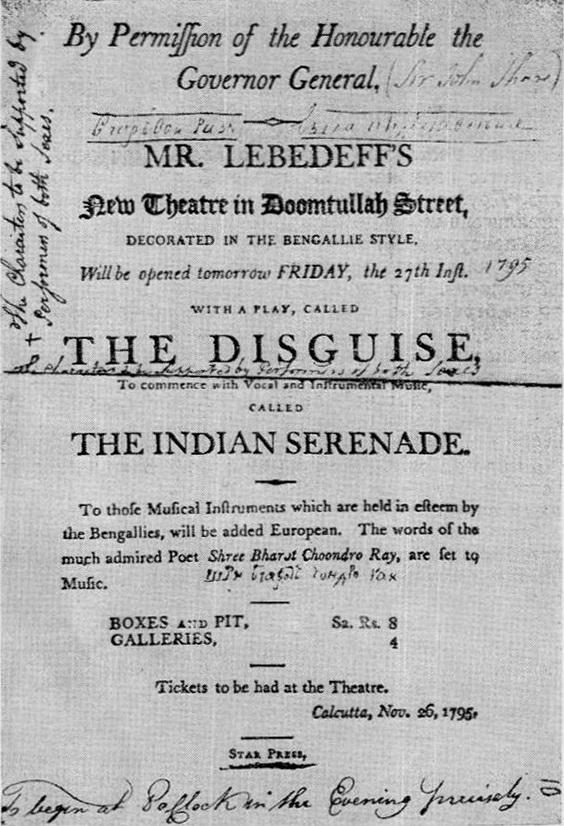 Poster of Performance The disguise.